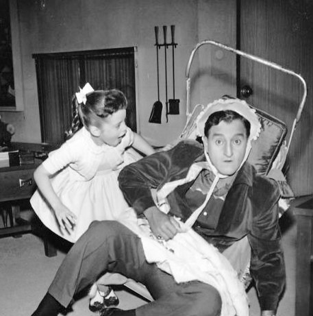 Danny Thomas and his television daughter, Angela Cartwright, play house in this publicity photo from the television program, Make Room for Daddy.